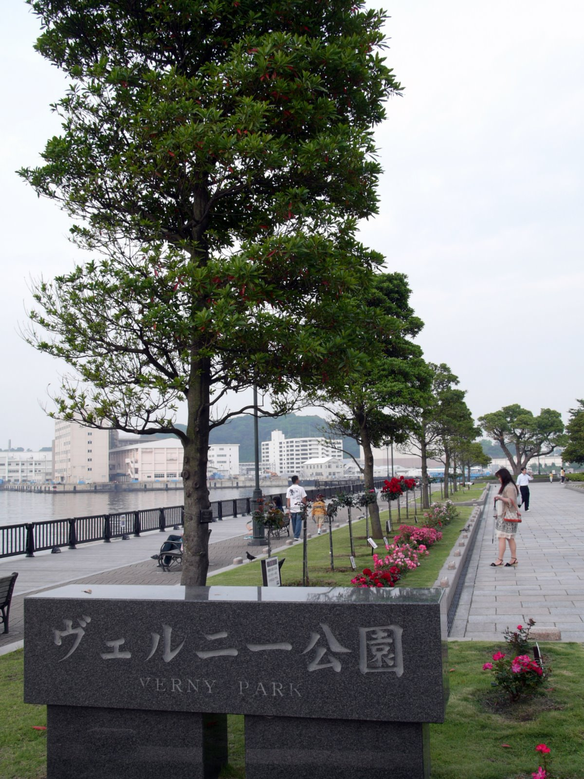 Verny Park. Panasonic Lumix DMC-L1